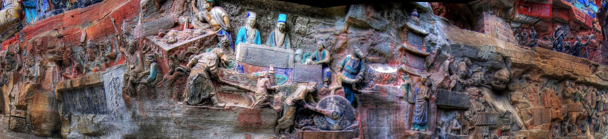 Dazu Shike Rock Carvings, 7 Beishan Rd, Dazu, Chongqing People's Republic of China by David McBride